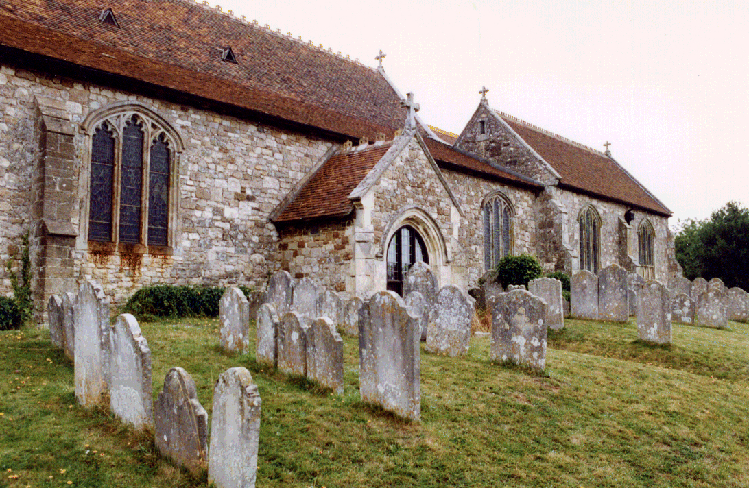 A church graveyard in Brading, on the Isle of Wight.